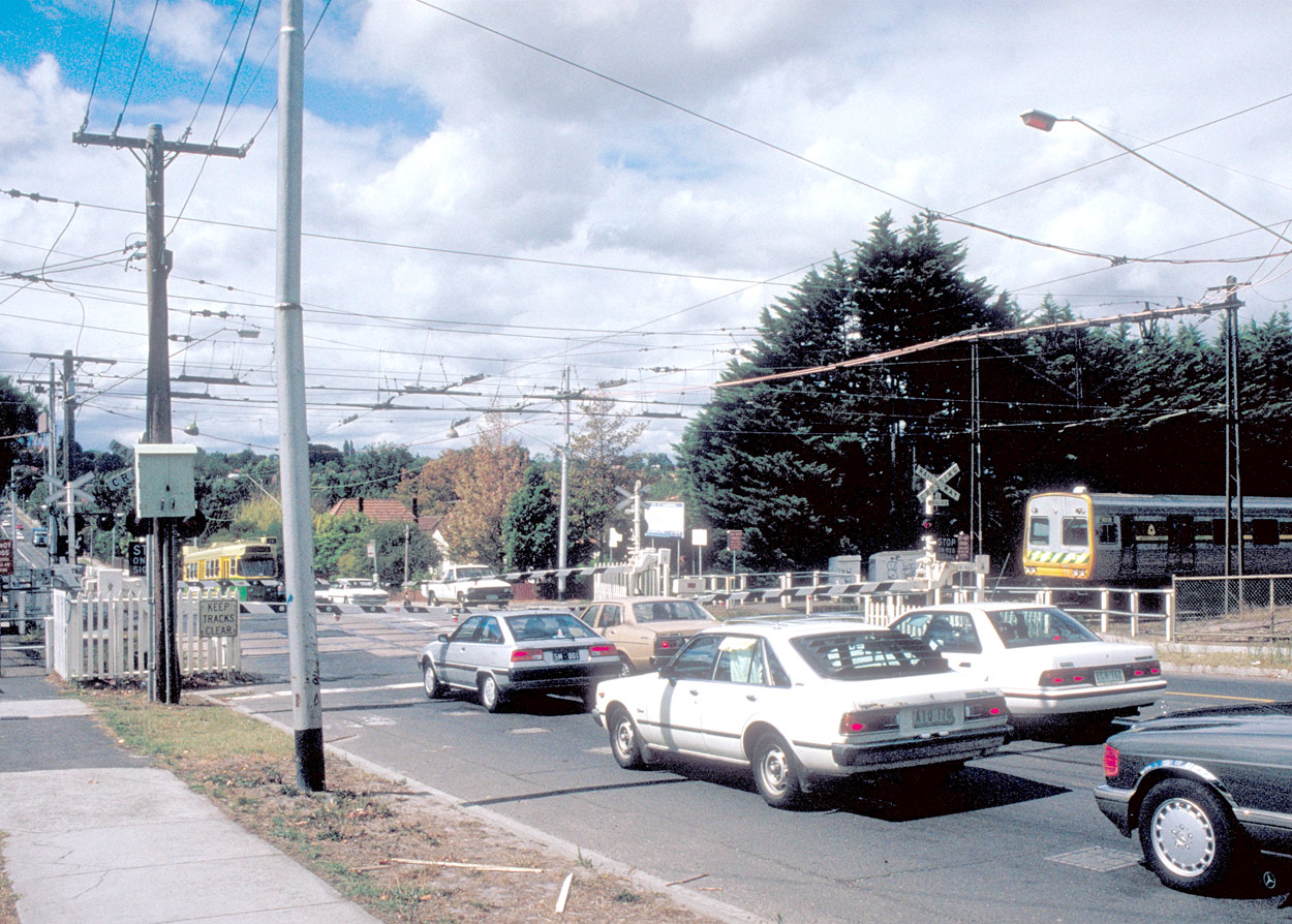 A level crossing in Melbourne, Australia where the roadway includes a tramline. Photographed by SPSmiler